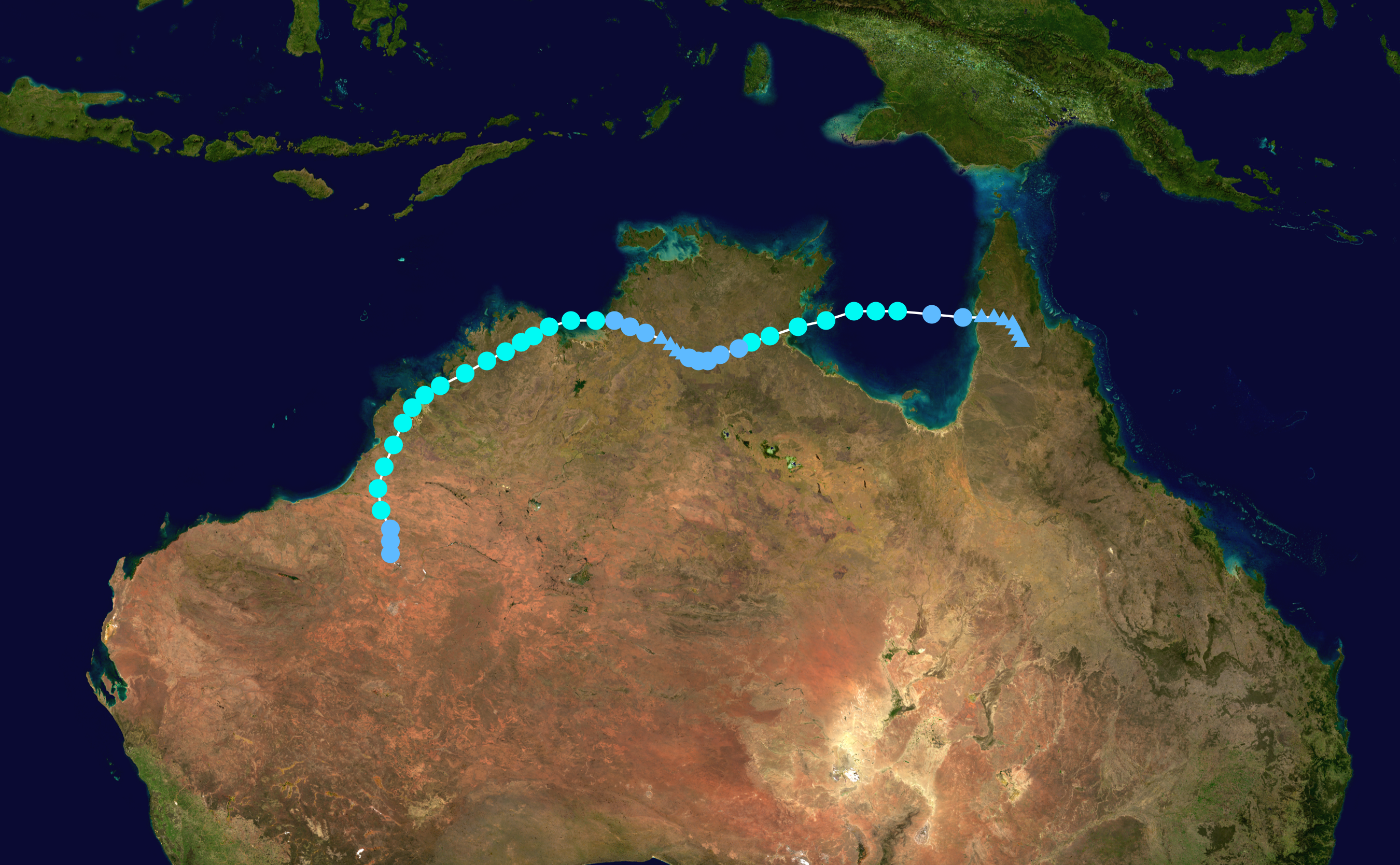 Cyclone Les (1998) track. Uses the color scheme from the Saffir-Simpson Hurricane Scale.